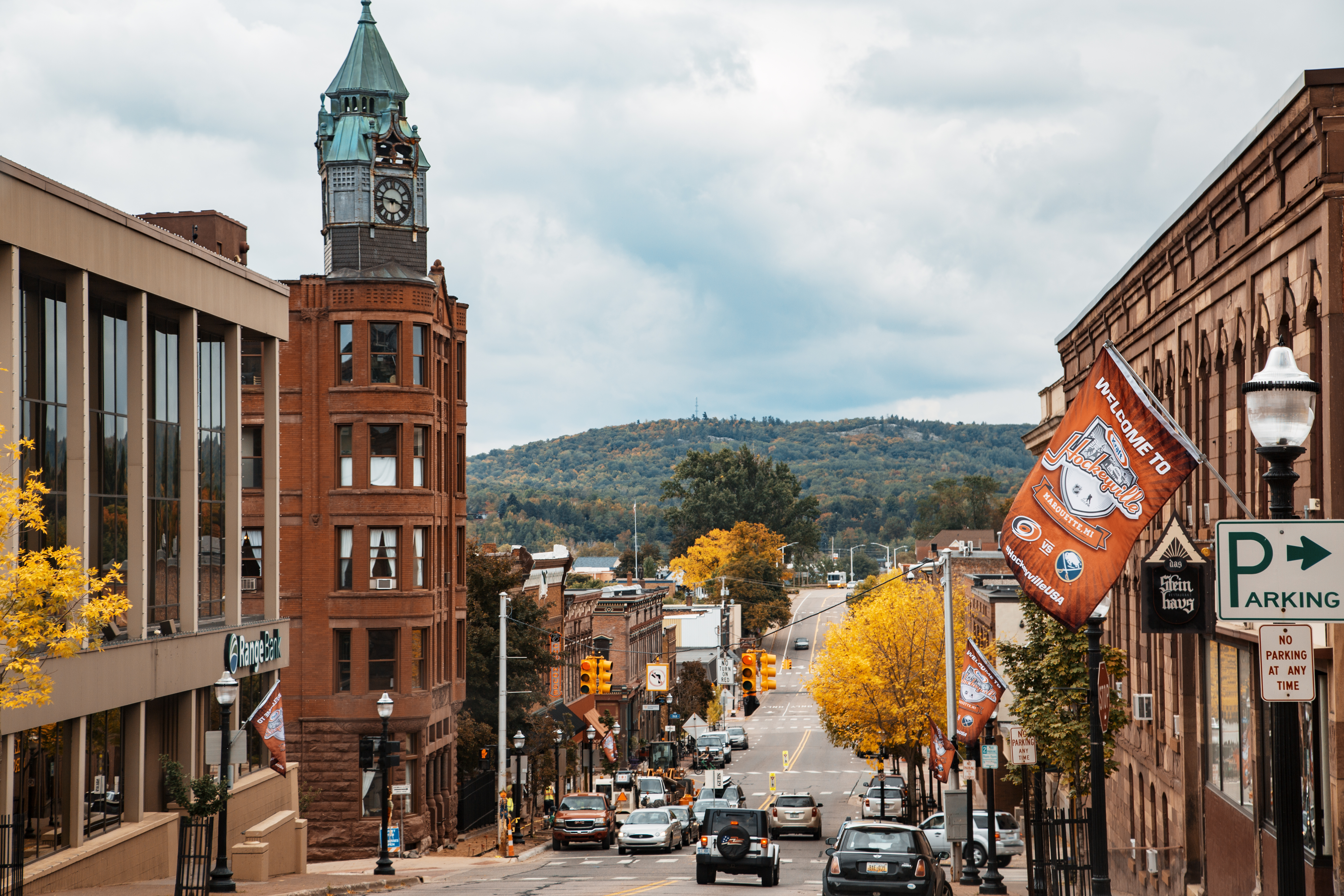 Downtown Marquette, Michigan, as seen from North Front Street in autumn, with a Kraft Hockeyville banner.